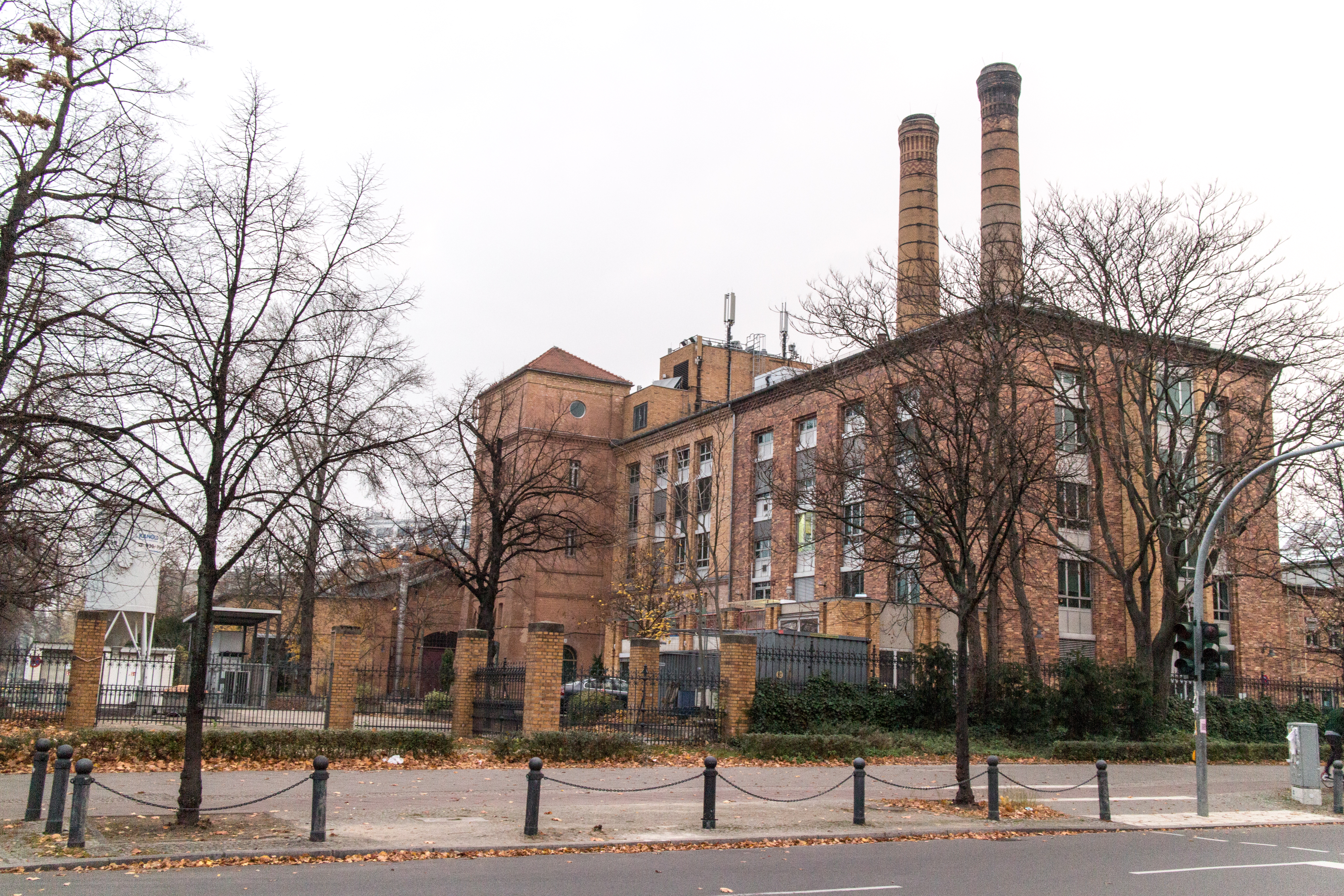 End of Hertzalle at Fasanenstraße, behind the fence non-public street on the TU Berlin campus to Ernst-Reuter-Platz